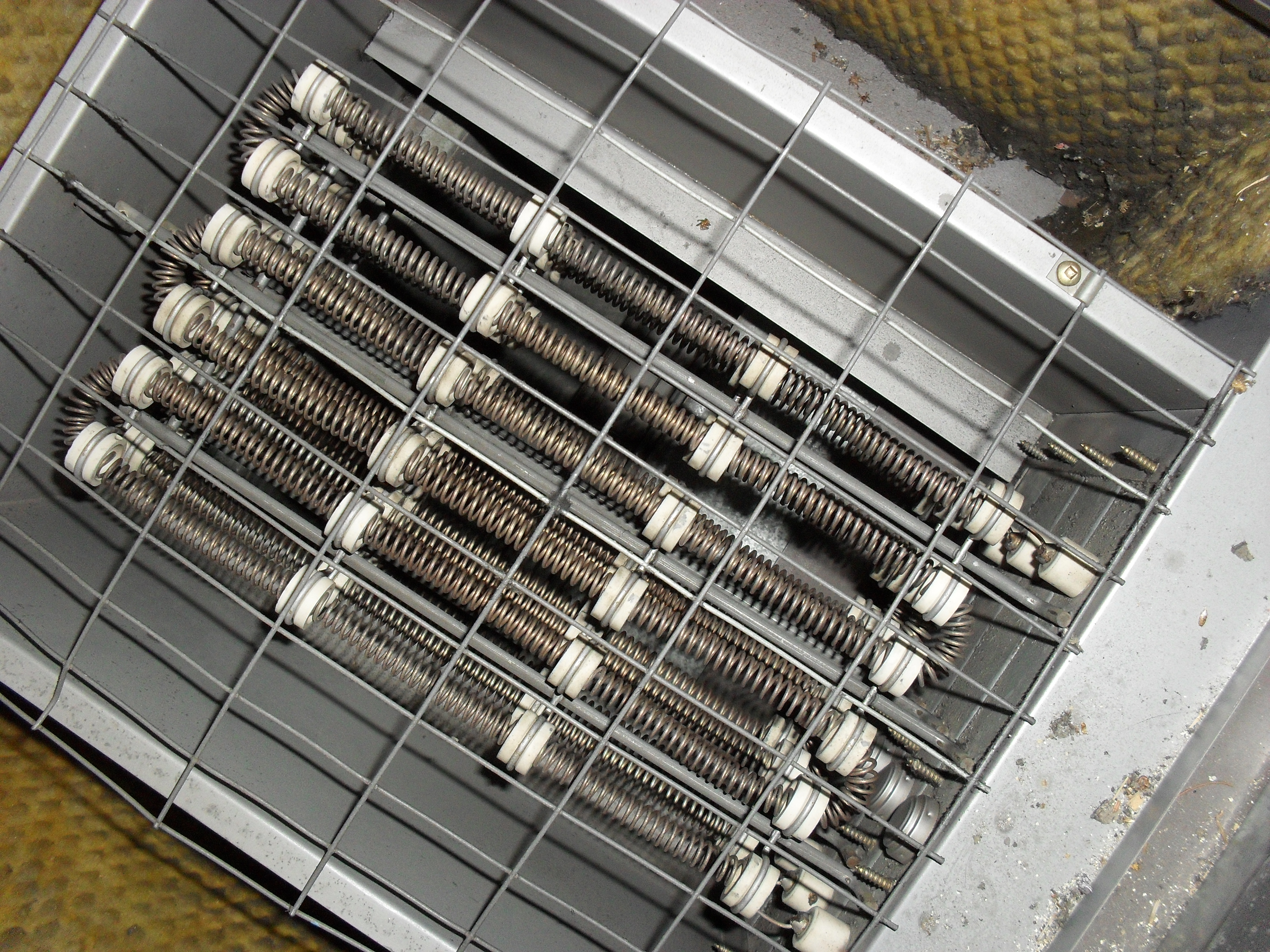 Forced air heating, 30kw resistance heating coil